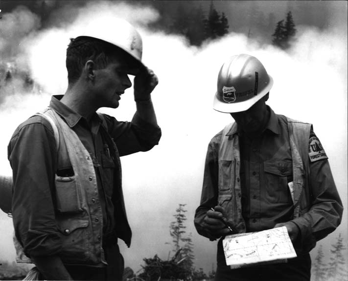 Two Siuslaw N.F. foresters discussing tactics at Buck Mtn. Fire, Detroit R.D.